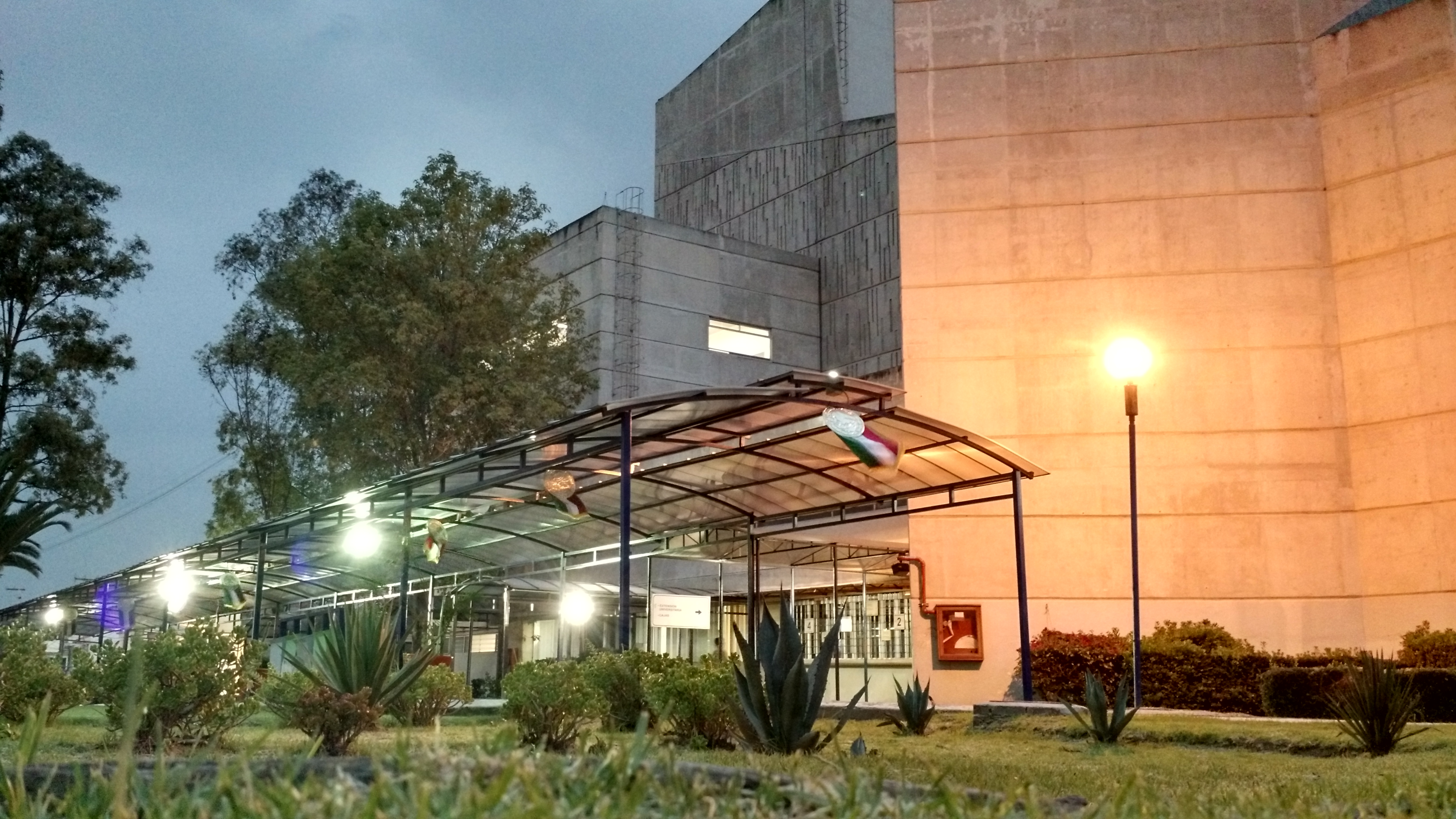 Theater Jose Vasconselos of the School of High Studies (FES) Aragón